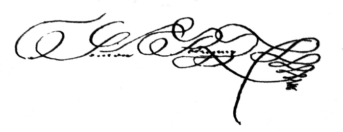 Signature of Venezuelan writer and schoolteacher Simón Rodríguez.